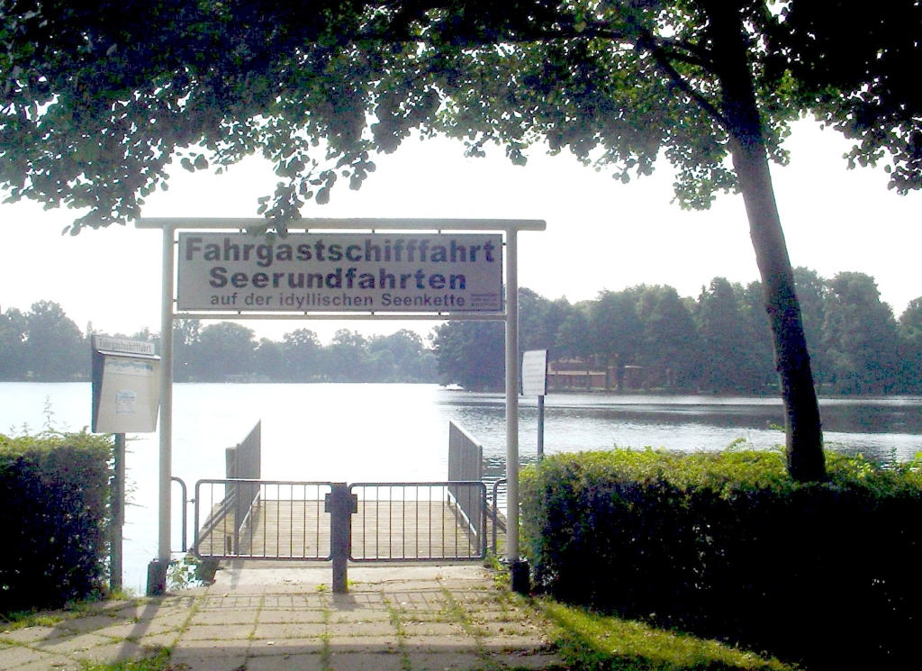 Lake Untersee with island near Kyritz, Germany